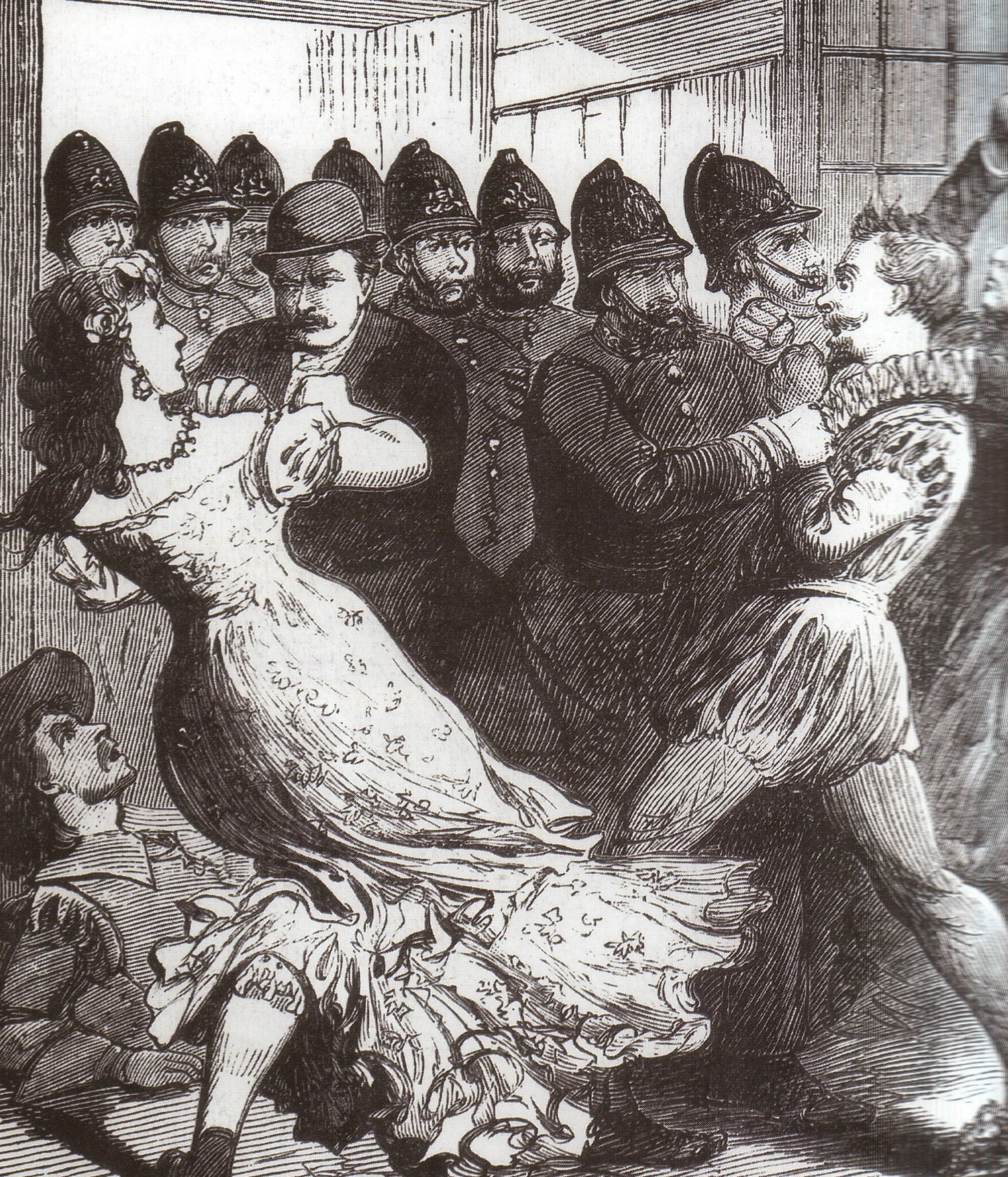 drawing depicting a police raid on a drag ball in Hulme (Manchester), in 1880, taken from The Illustrated Police News.